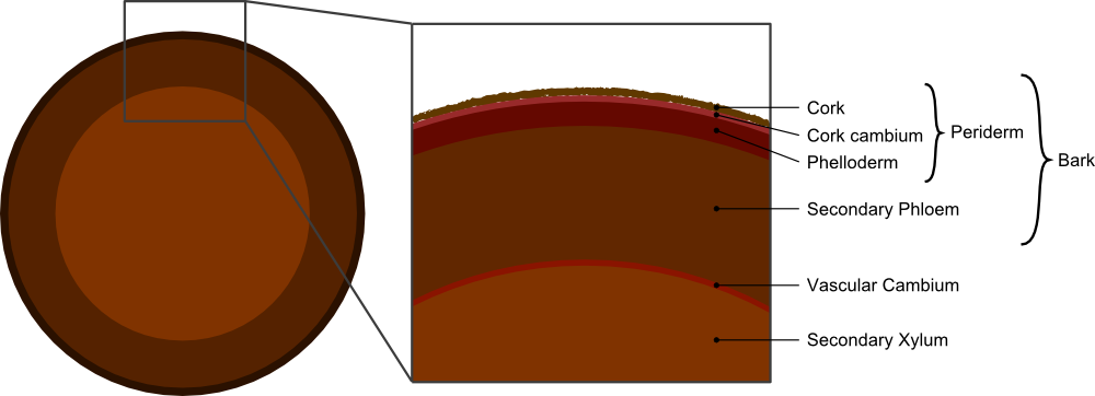 Diagram showing basic tissues of a cross section of a common tree trunk.